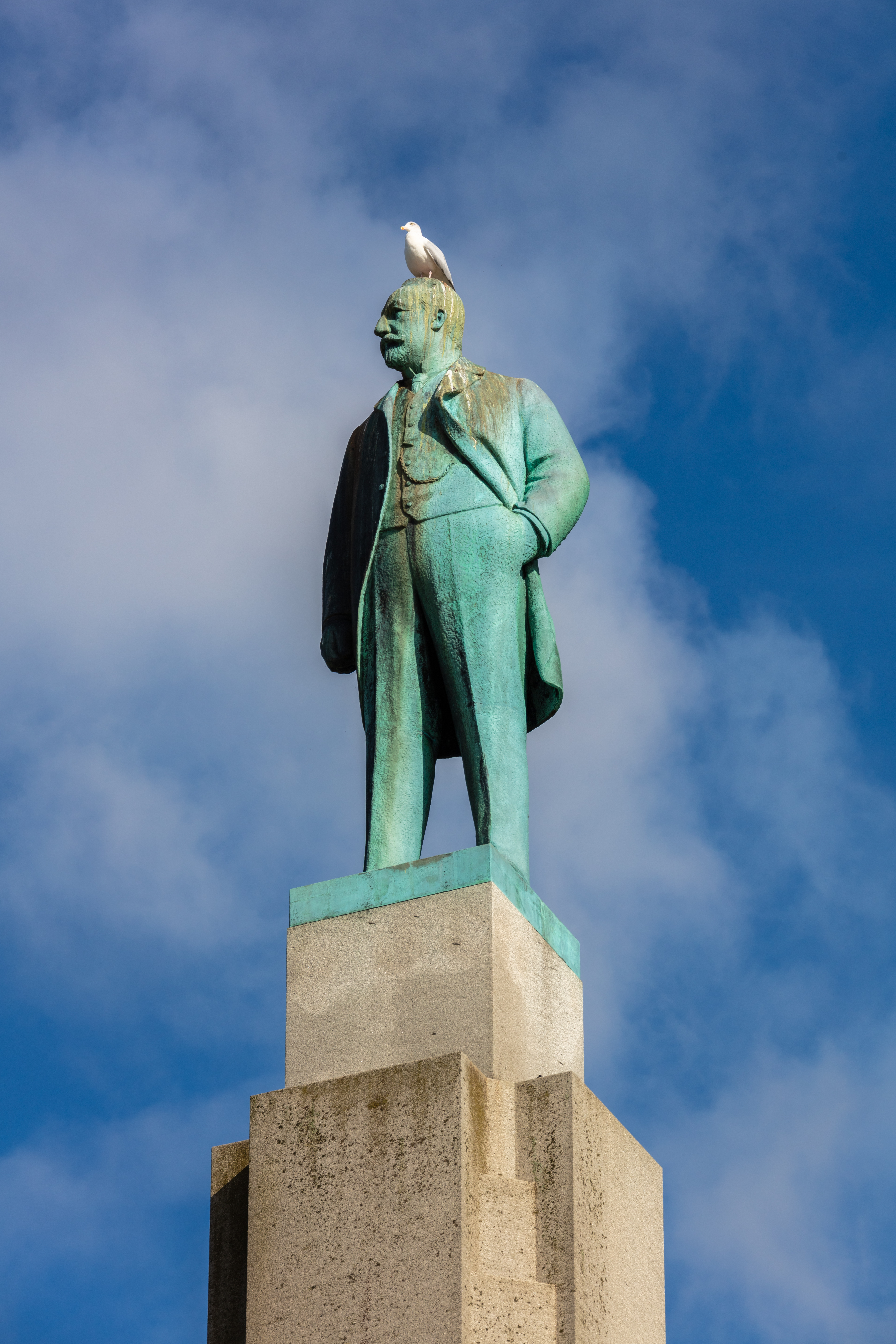 Christian Michelsen Monument, Bergen, Norway